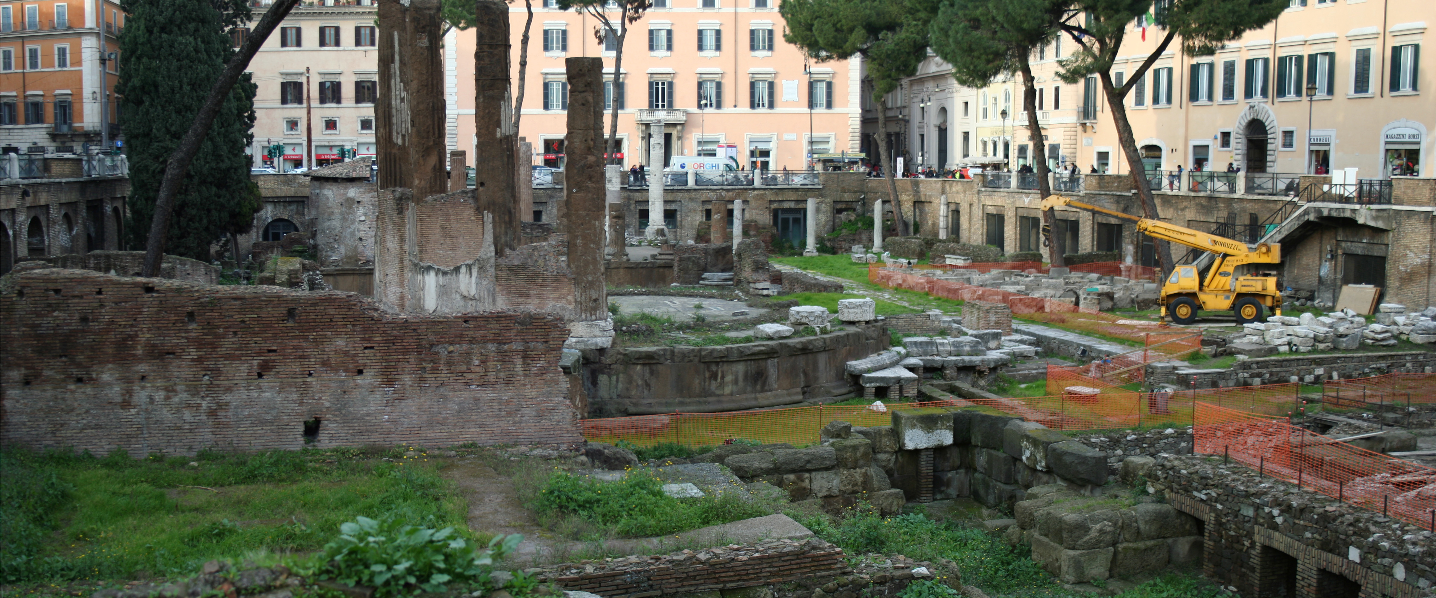 Wide view of the Roman Largo di Torre Argentina showing conservation work in progress. Created from 2 images stitched together using Adobe Photoshop Photomerge (R) Panorama.